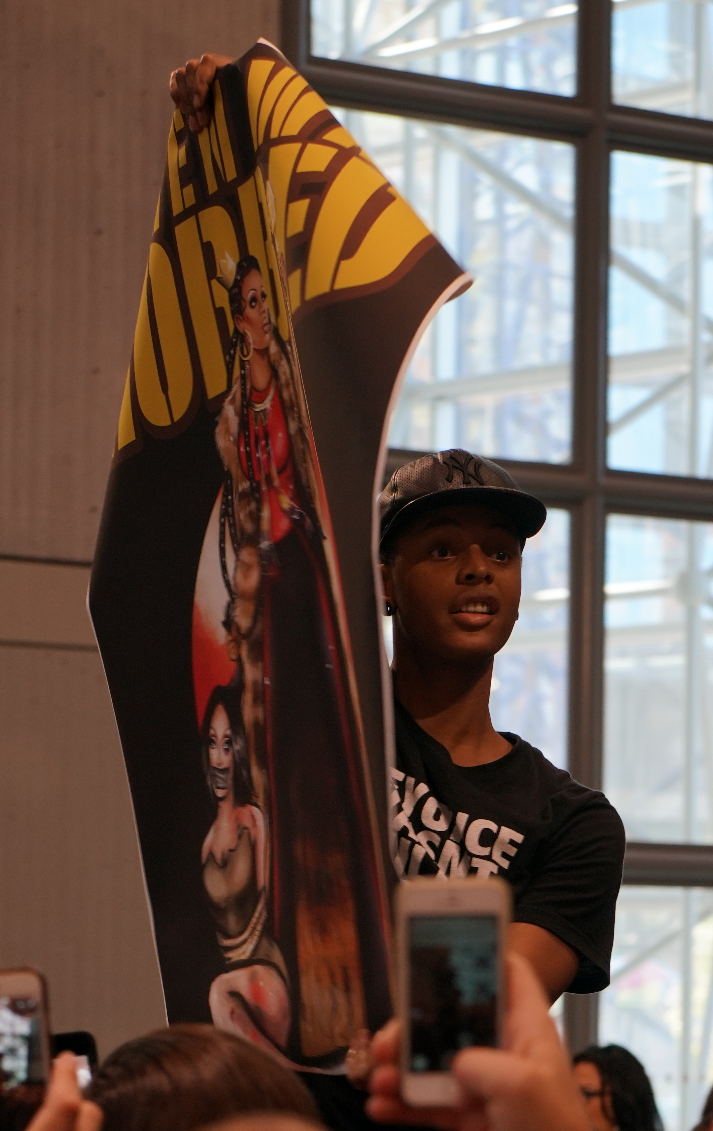 Tyra Sanchez holding a sign that reads 'Raven was robbed' at RuPaul's DragCon in NYC in 2017